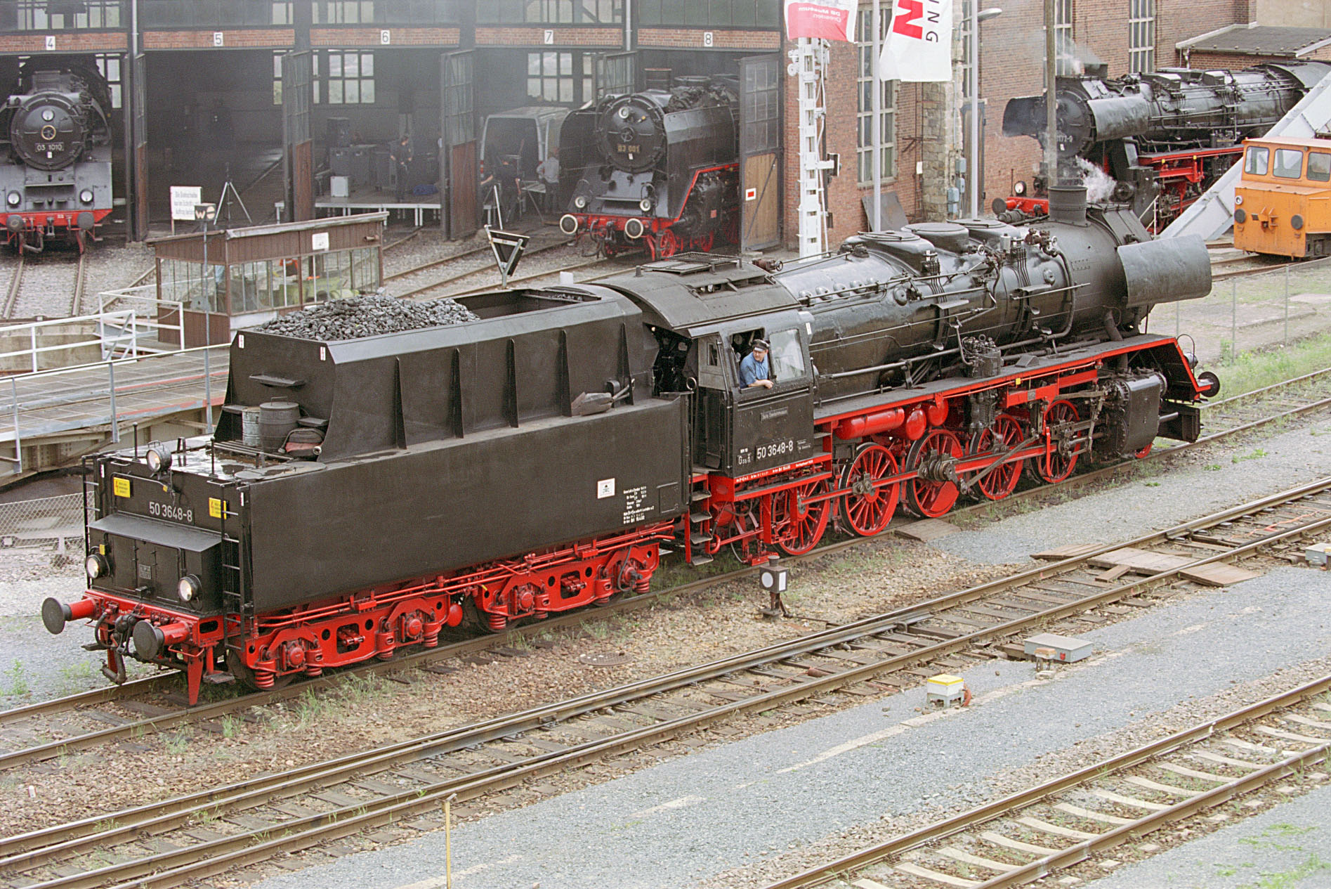 Steam Locomotive DR 50 3648-8.